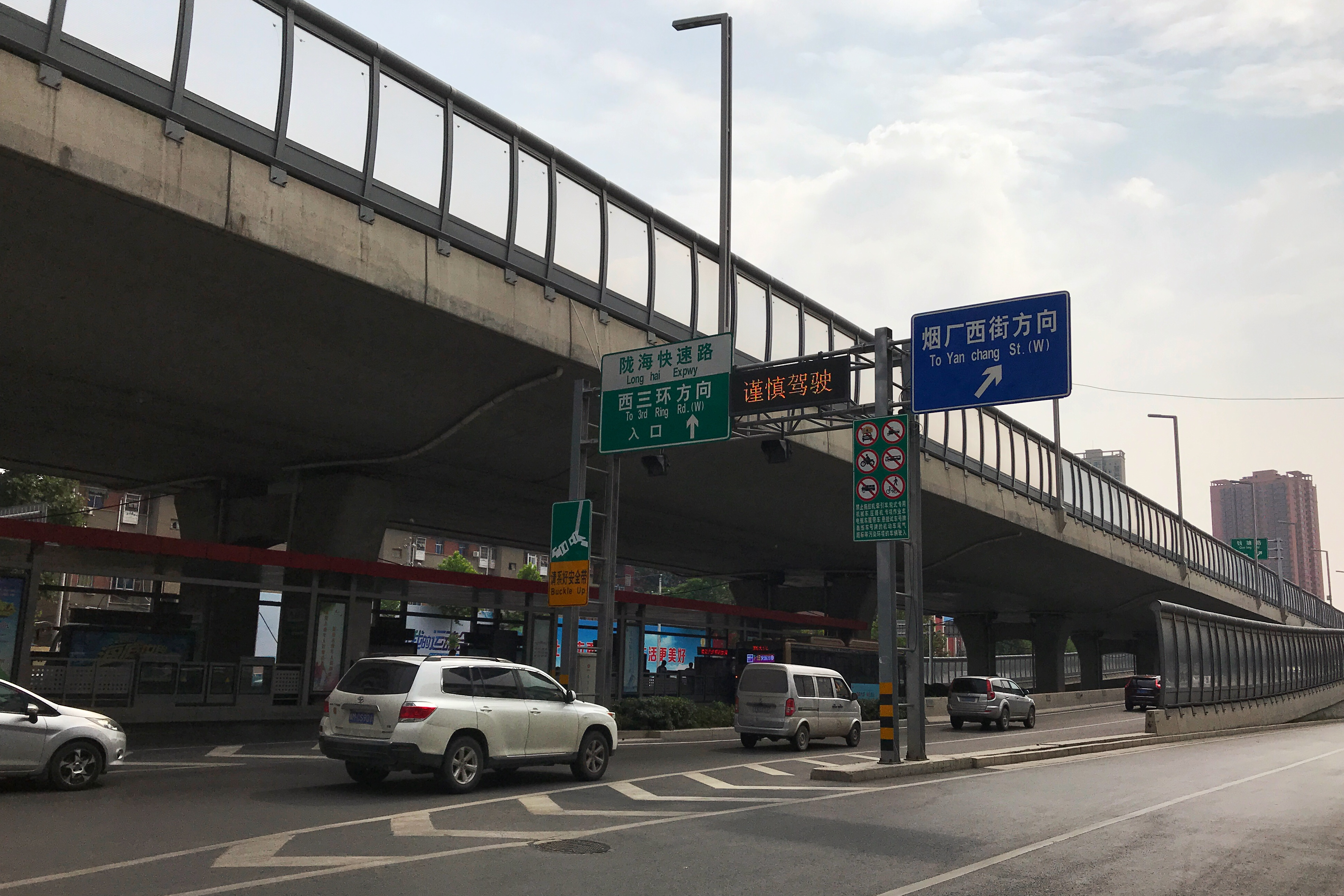 Longhai Expressway near Zijingshan Rd.